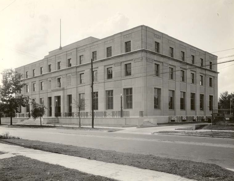 U.S. Post Office and Court House, 1933, Baton Rouge (East Baton Rouge Parish, Louisiana) Completed in 1933; Architect: Moise Goldstein Still in use by U.S. Bankruptcy Court for the Middle District of Louisiana; the U.S. District Court for the Eastern District of Louisiana met here until the creation of the Middle District in 1972. cropped